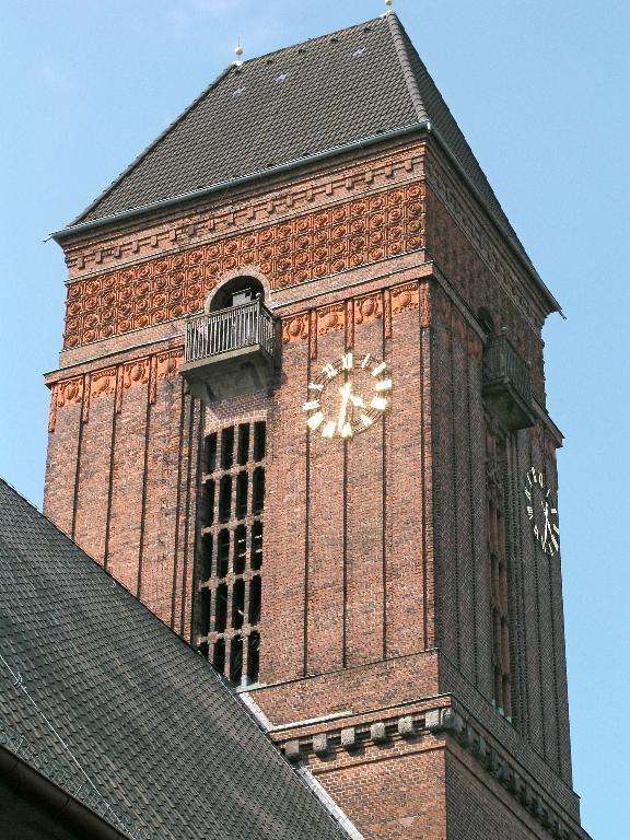 Neumünster, Schleswig-Holstein, Germany: church “Anscharkirche“, photo 2007